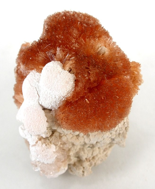 Prehnite, Xonotlite Locality: N'Chwaning II Mine, N'Chwaning Mines, Kuruman, Kalahari manganese fields, Northern Cape Province, South Africa (Locality at ) Size: 4.7 x 3.6 x 3.4 cm. A beautiful inesite miniature with rich red-orange Prehnite highlighted by stark white xonotlite balls. Complete all around and very 3-dimensional! NOT an inesite, though it’s easy to be fooled! Ex. Charlie Key.